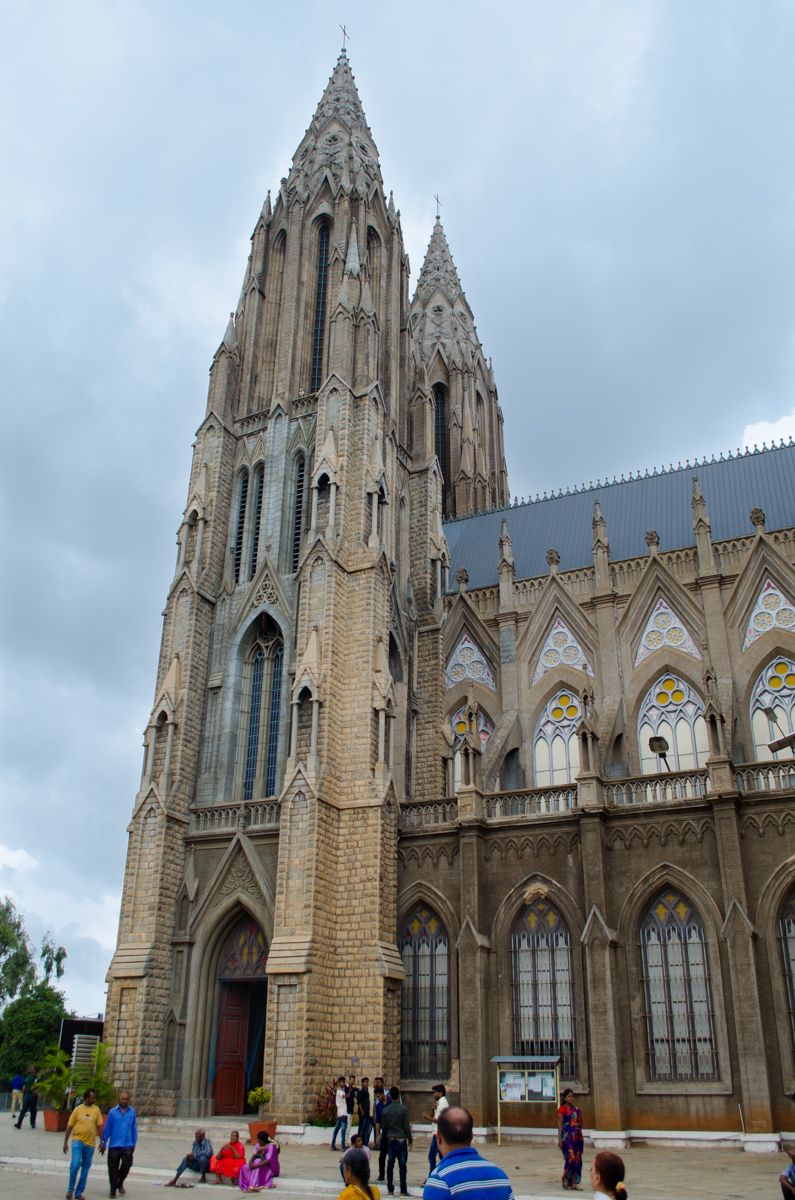 St. Philomena's Church, Mysore